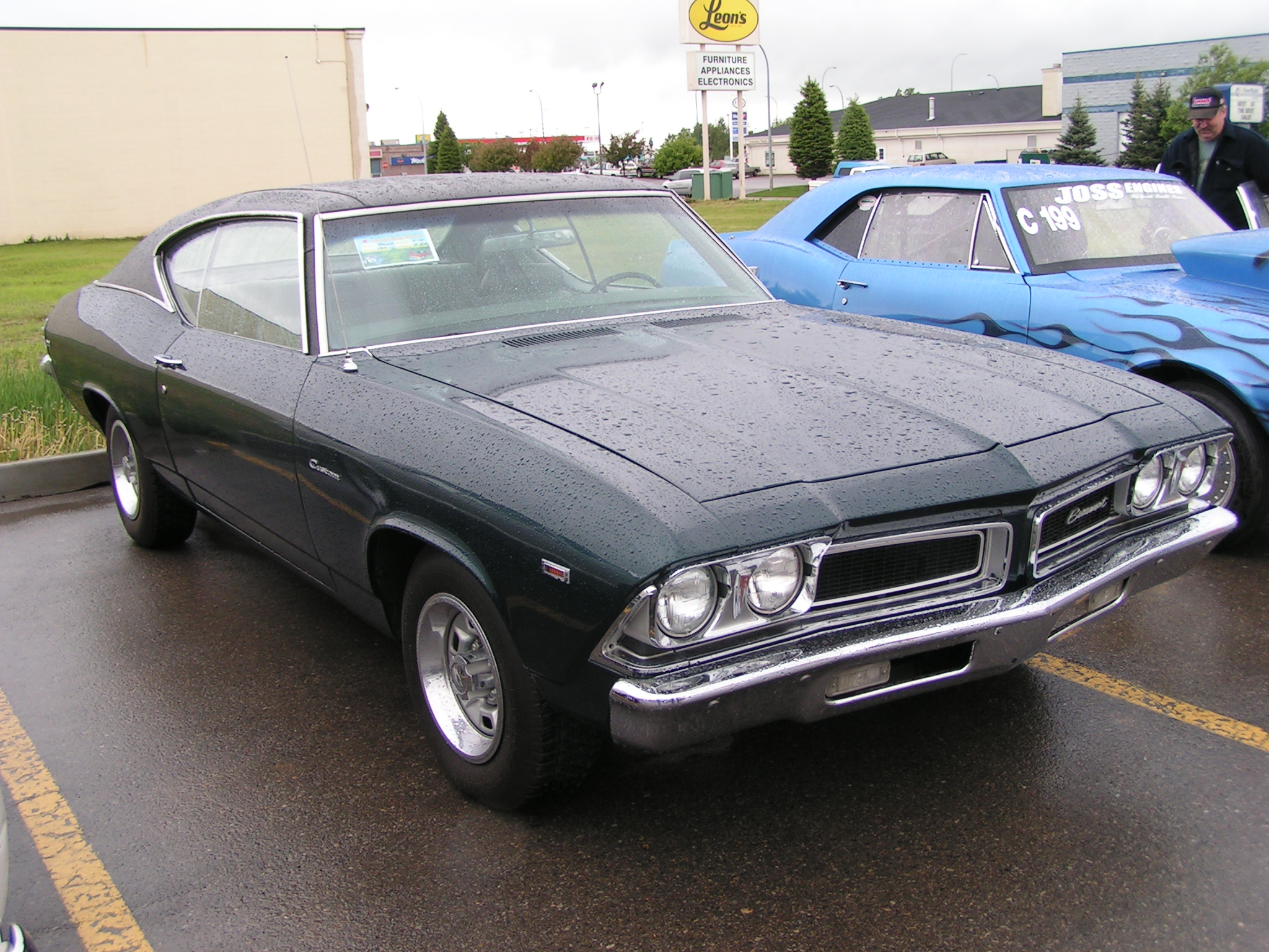 1969 Beaumont - Canadian version of the Chevelle sold at Pontiac dealerships